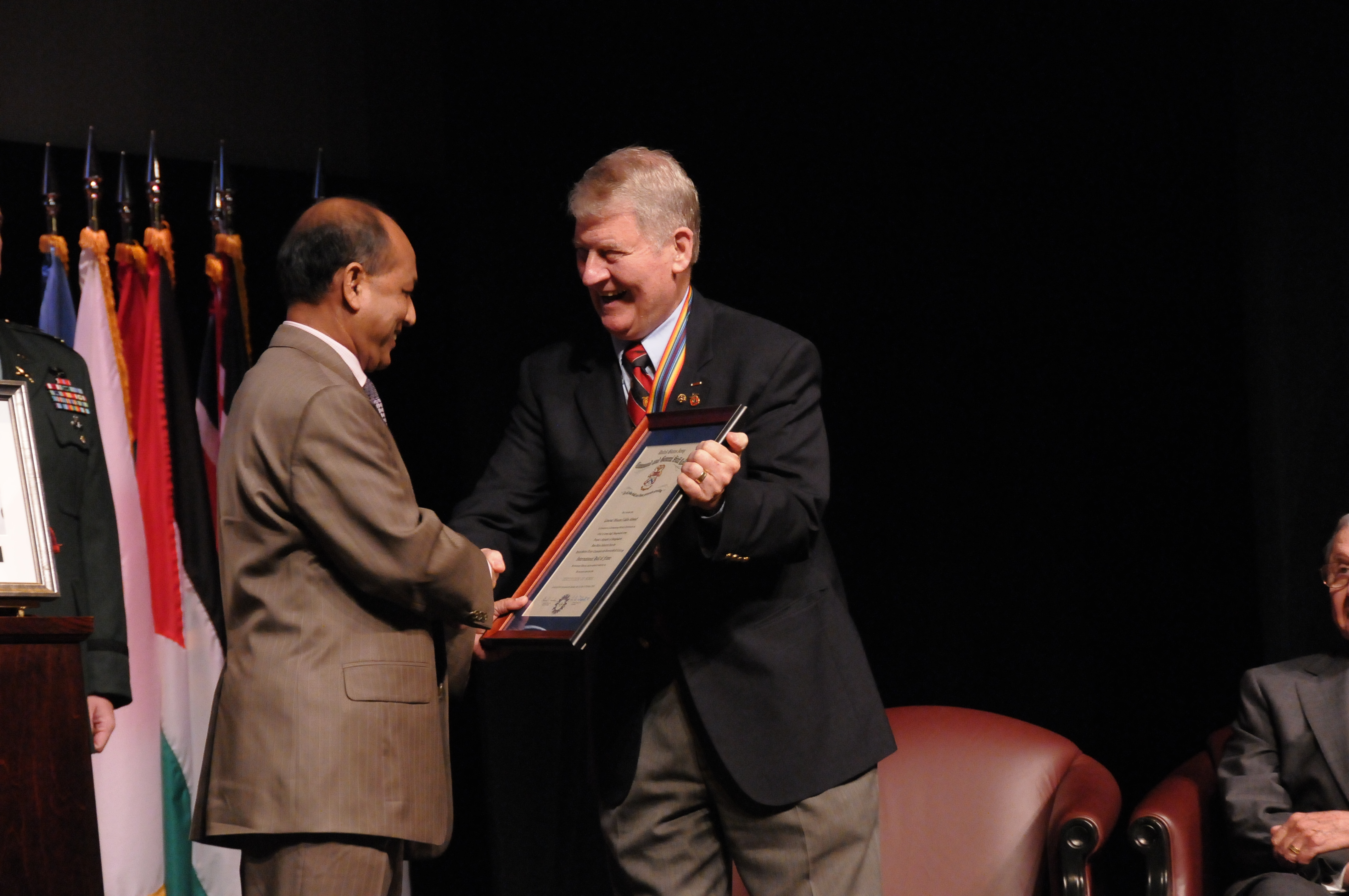 Retired Gen. Moeen Uddin Ahmed, former Chief of Army Staff, Bangladesh, accepts his IHoF induction certificate from Retired Navy Capt. Dorsey Moore, immediate past president of the Kansas City Chapter of the Military Order of the World Wars during the IHOF ceremony held Oct. 1.